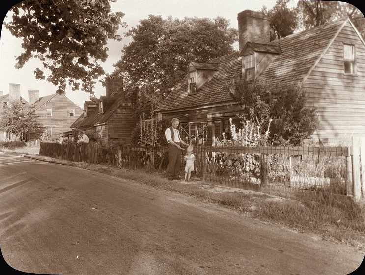 Title [On Ettricks Island, Petersburg, Dinwiddie County, Virginia. Street] Summary Photo shows man and boy standing outside wire fence, with flower garden and house behind them. House adjacent has man and woman inside wood plank fence. Contributor Names Johnston, Frances Benjamin, 1864-1952, photographer Created / Published [1933] Subject Headings - Houses--Virginia--Dinwiddie County--1930-1940 - Fences--Virginia--Dinwiddie County--1930-1940 - Wooden buildings--Virginia--Dinwiddie County--1930-1940 - City & town life--Virginia--Dinwiddie County--1930-1940 Format Headings Lantern slides--1930-1940. Notes - On slide (handwritten): "'On Ettricks' Appomatox River." - Slide for lecturing on "Tales Old Houses Tell." - Title and date based on same image in the Carnegie Survey of the Architecture of the South, LC-J7-VA-1671, with additional information from Sam Watters, 2011. - Forms part of: Garden and historic house lecture series in the Frances Benjamin Johnston Collection (Library of Congress). - Formerly in Box 30. Medium 1 photograph : glass lantern slide, sepia-toned ; 3.25 x 4 in. Call Number/Physical Location LC-J717-X106- 39 [P&P] Repository Library of Congress Prints and Photographs Division Washington, D.C. 20540 USA Digital Id ppmsca 16609 //hdl.loc.gov/loc.pnp/ppmsca.16609 Library of Congress Control Number 2008675909 Reproduction Number LC-DIG-ppmsca-16609 (digital file from original item) Rights Advisory No known restrictions on publication. Online Format image Description 1 photograph : glass lantern slide, sepia-toned ; 3.25 x 4 in. | Photo shows man and boy standing outside wire fence, with flower garden and house behind them. House adjacent has man and woman inside wood plank fence. LCCN Permalink